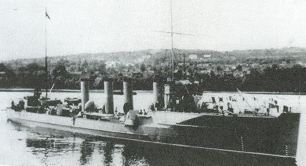 The Norwegian Draug class destroyer HNoMS Draug